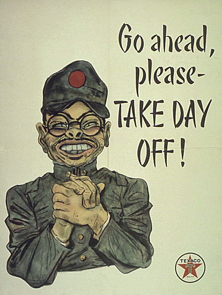 "Go Ahead, Please - Take Day Off!", 1941 - 1945. Creator: Office for Emergency Management. (03/09/1943 - 08/31/1945). Item from Record Group 44: Records of the Office of Government Reports, 1932 - 1947. Important piece of propaganda. Uploaded by User:Brian0918. Other version from NARA